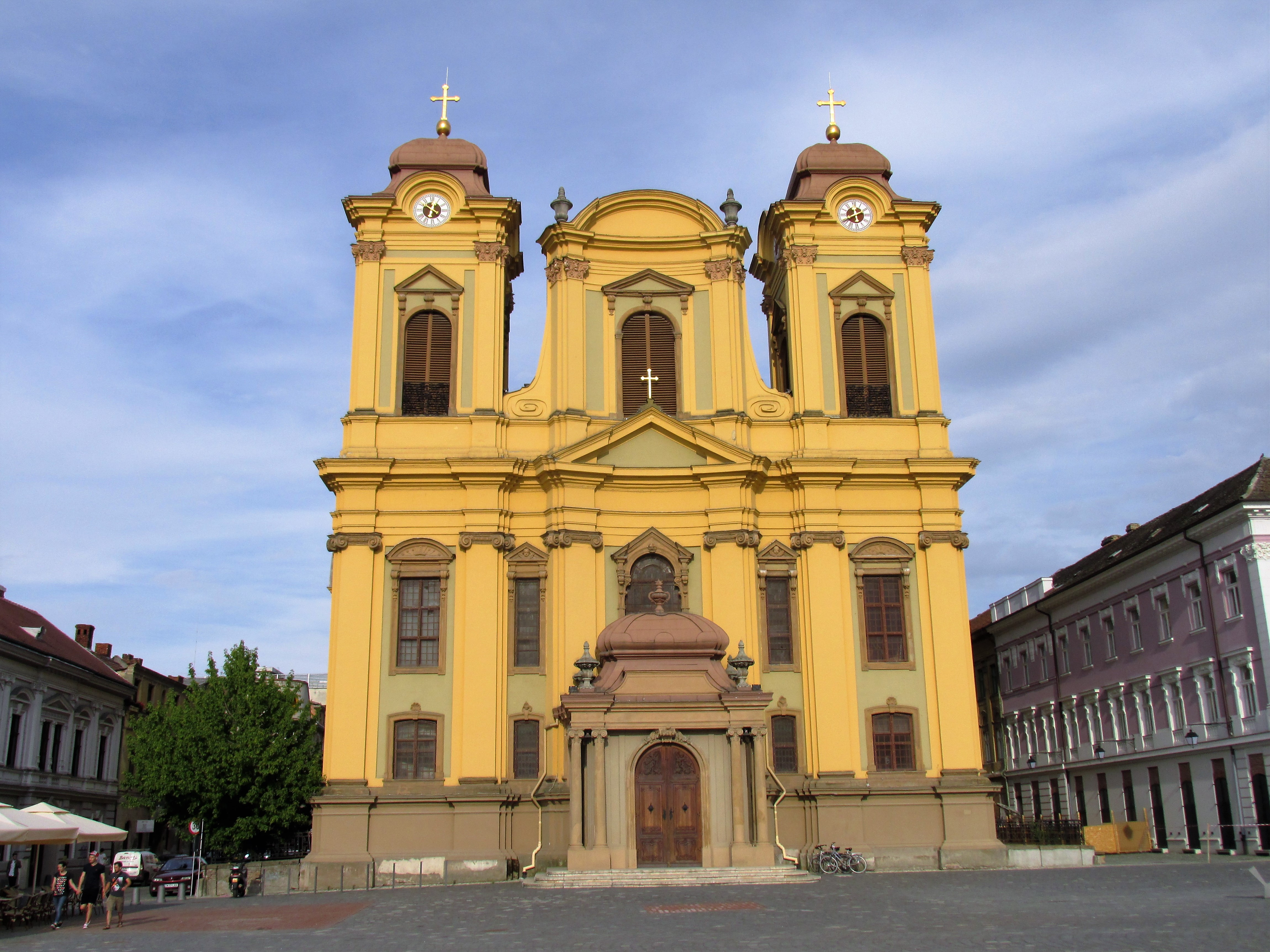 St. George Roman Catholic Dome, Timișoara